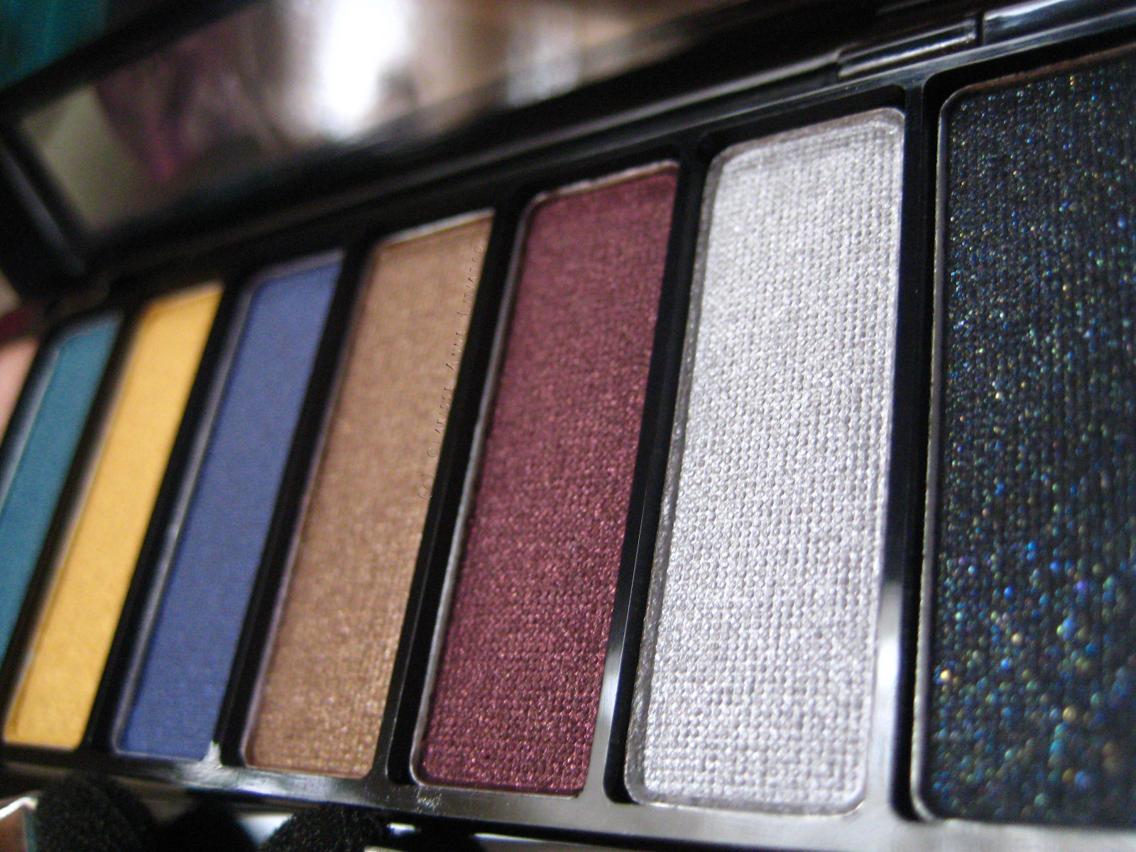 Eye shadow pigments detailed